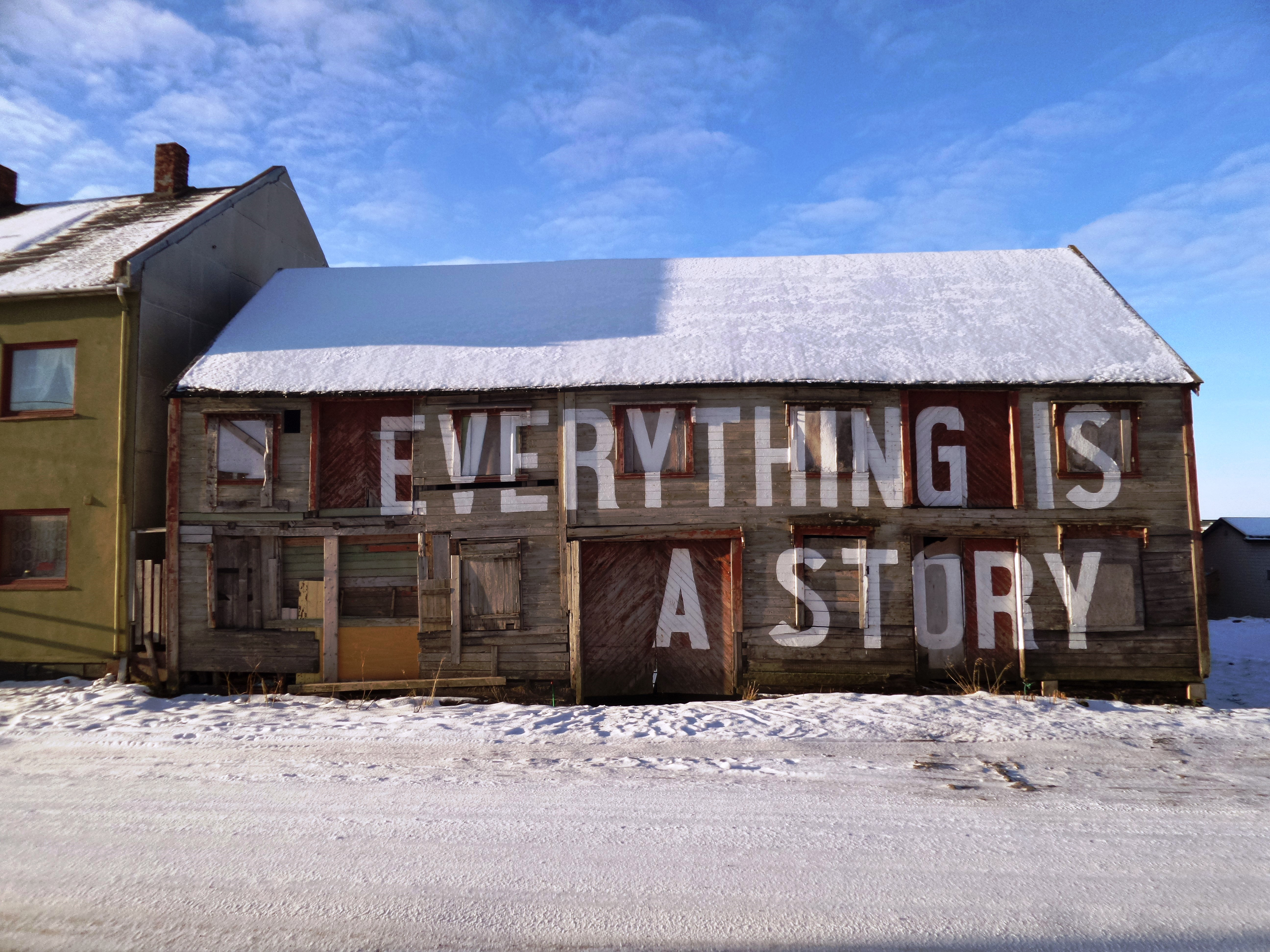 Street art in Vardø: Everything is a story